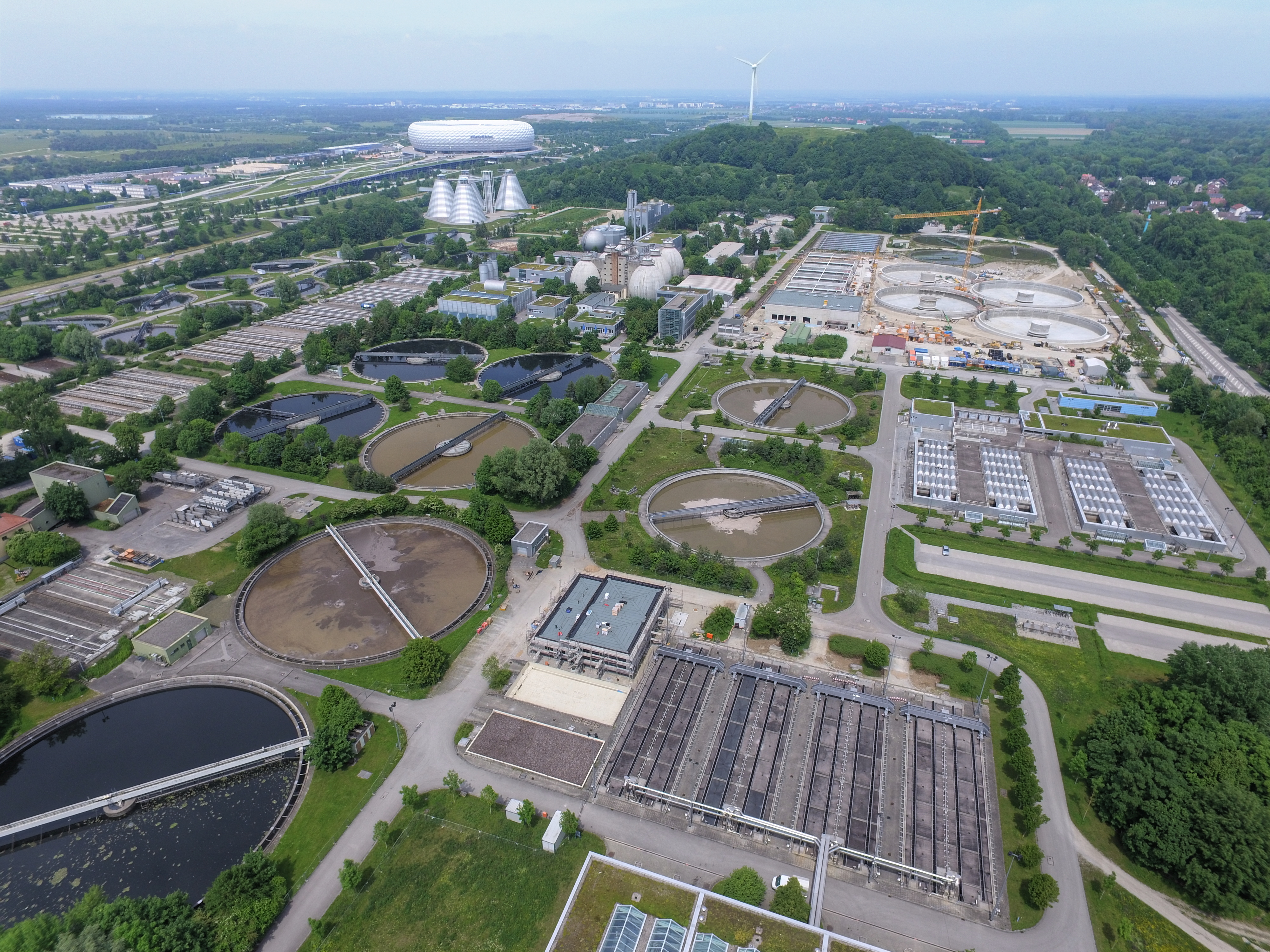 Aerial view of the wastewater treatment plant "Gut Großlappen" in Munich.